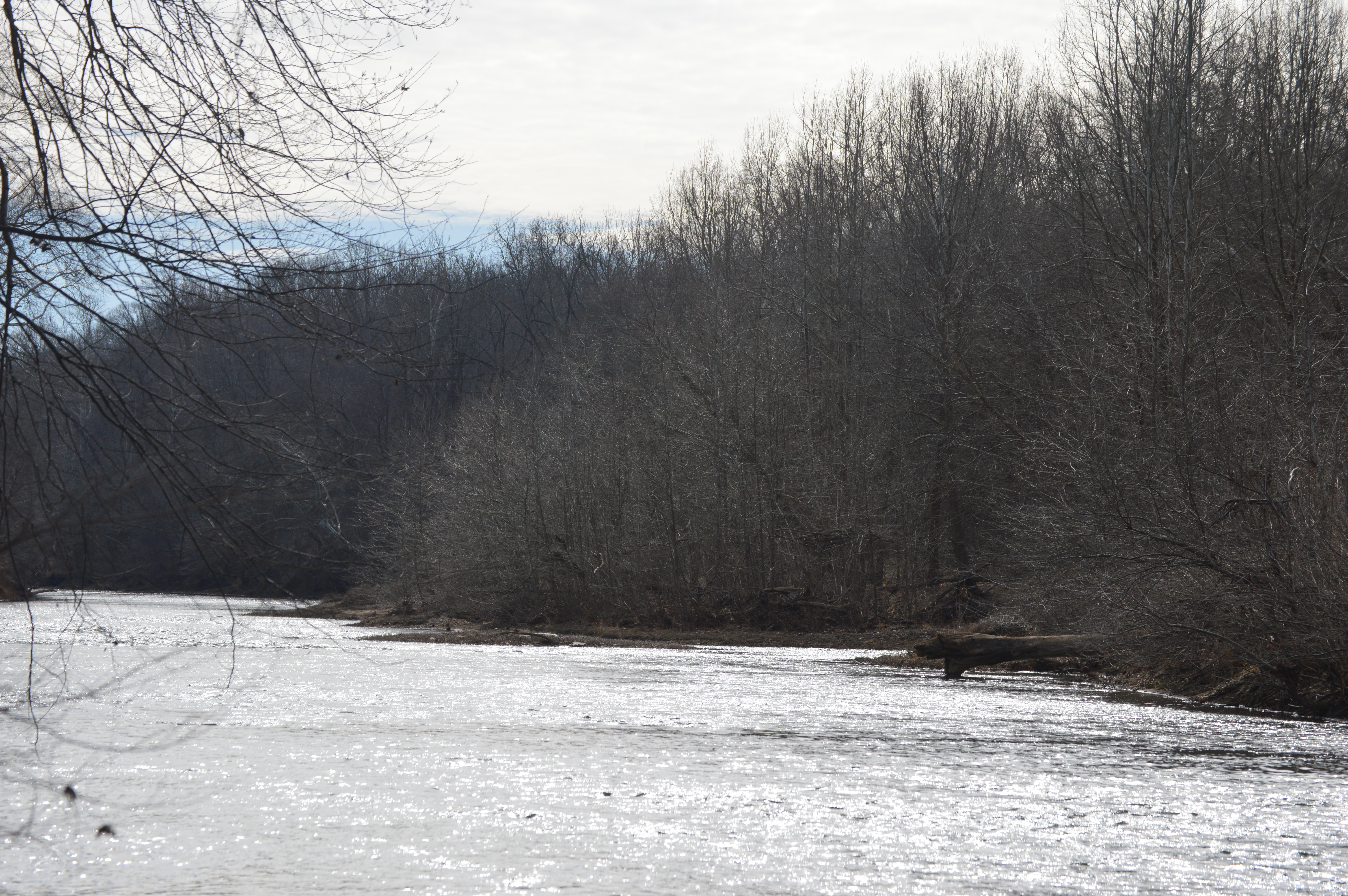 Looking downstream on the Rivanna River from the Crofton Boat Ramp in Fluvanna County, Virginia, United States. In the distance, although not visible, are the outlet locks for the Union Mills Canal, which are listed on the National Register of Historic Places.